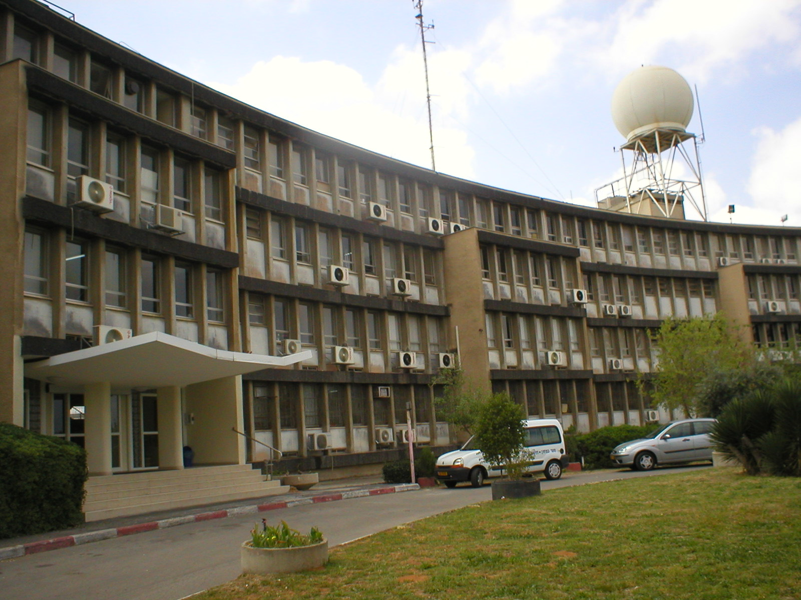 The meteorological service building in Beit Dagan